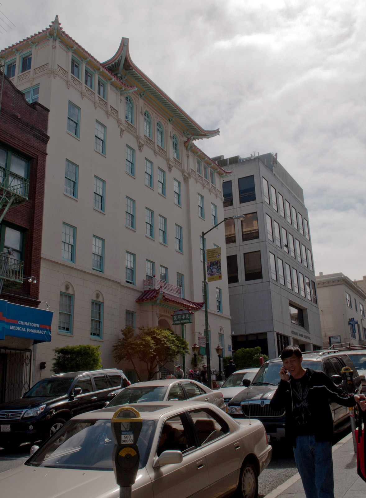 San Francisco's Chinese population dates back all the way to the 1840s Gold Rush. The Chinese have been an integral part of San Francisco's social fabric ever since, despite severe backlash from the rest of the society that persisted well into the 1960s. Very memorable architecture on this hospital building.